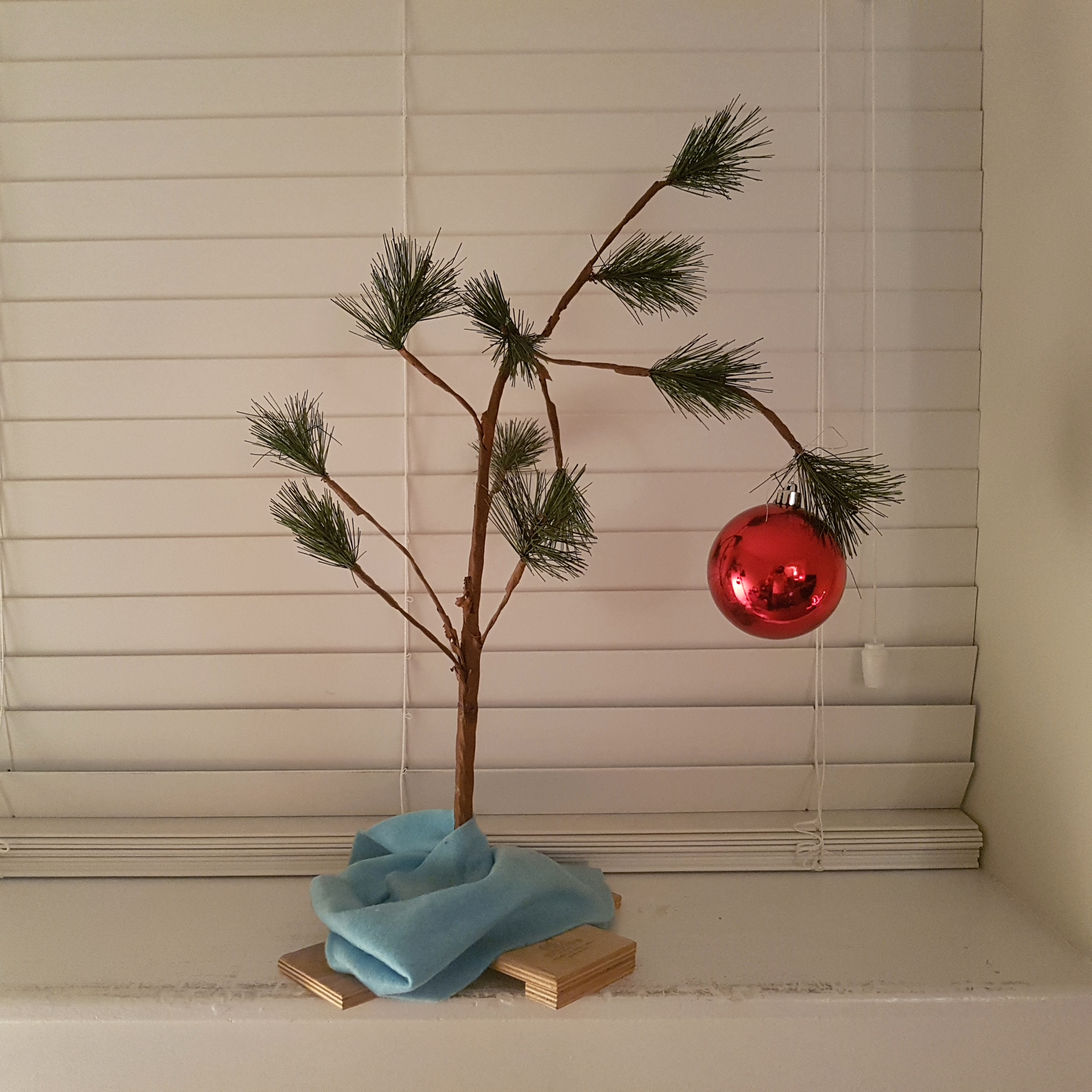 Charlie Brown Christmas Tree